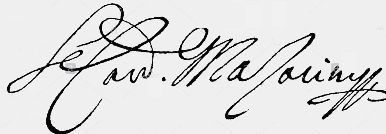 Undated signature of Cardinal Mazarin